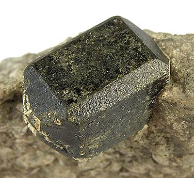 Wiluite Locality: Wilui River, Yakutxk, Siberia, Russia Size: small cabinet, 6.9 x 4.0 x 2.7 cm Wiluite If the name of this species is unfamiliar to you, it is a rare member of the vesuvianite family of minerals. This matrix specimen displays a clearly tetragonal habit. It is a doubly terminated, lustrous, black wiluite crystal, measuring 2.5 cm in length. Sharp. Ex. Richard Hauck Collection.